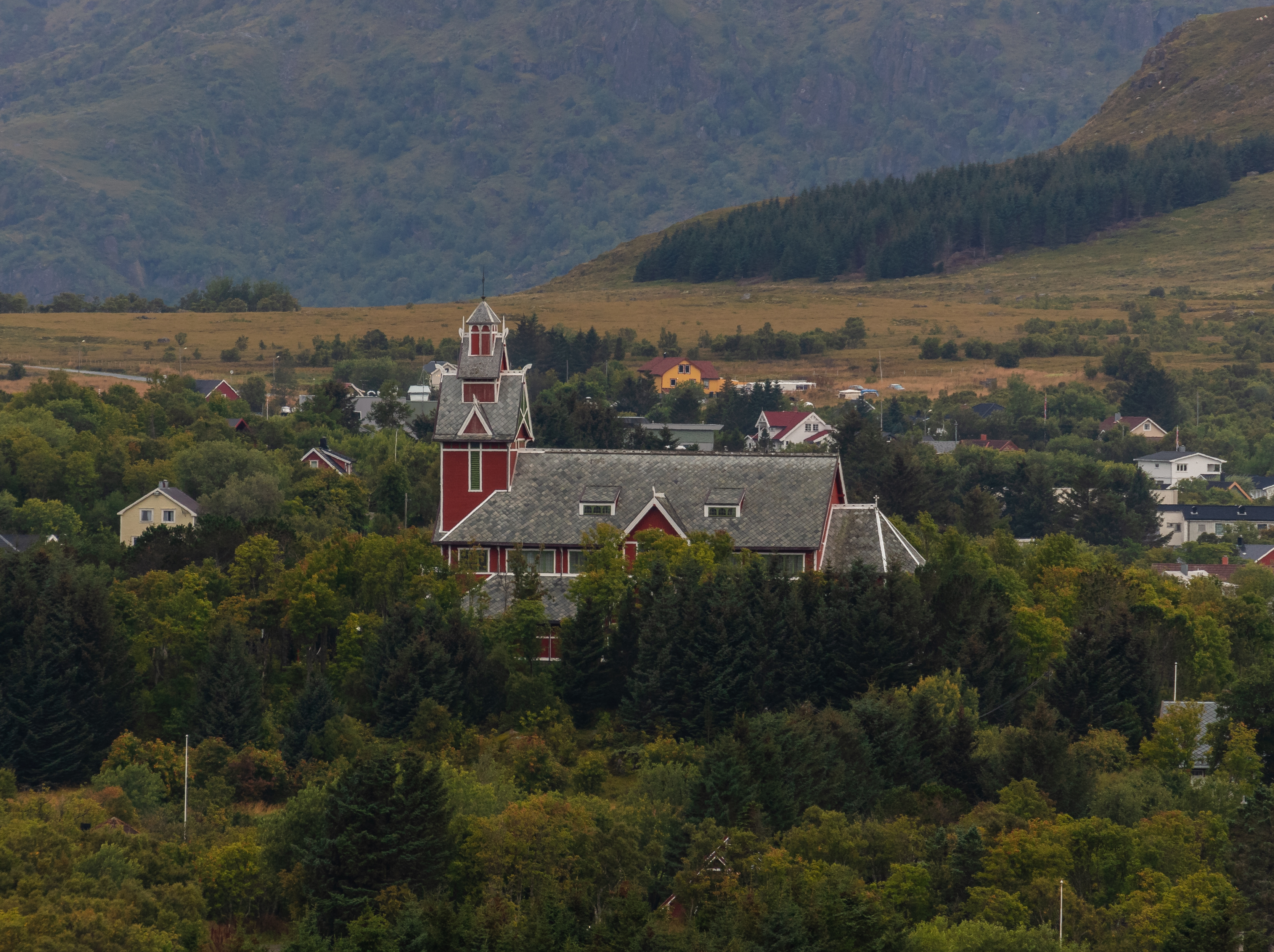 Buksnes church, Gravdal, Lofoten, Norway